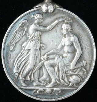 India General Service Medal 1854 reverse